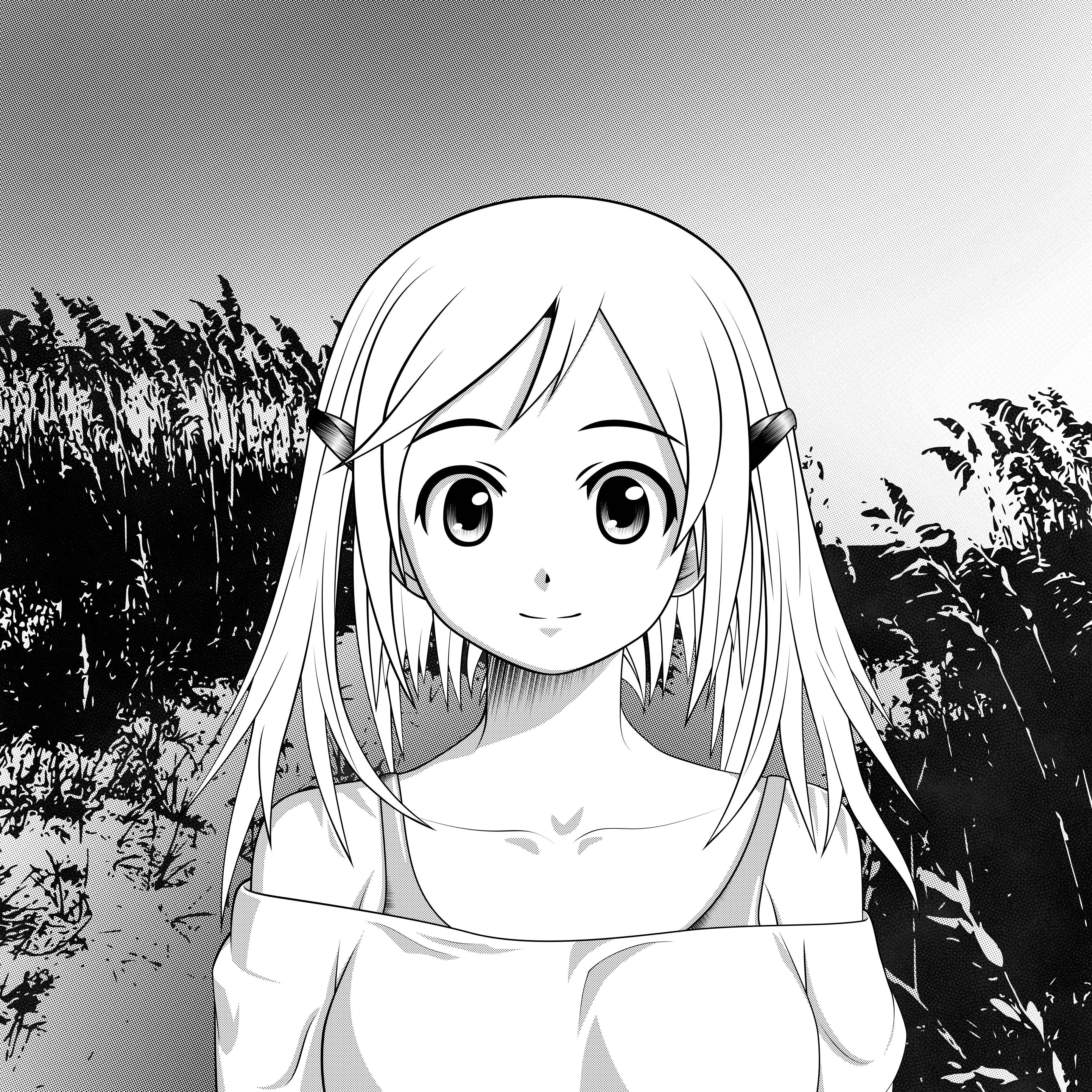 A figure drawn in manga style. Typically reduced to black and white and different patterns to compensate the lack of colors.